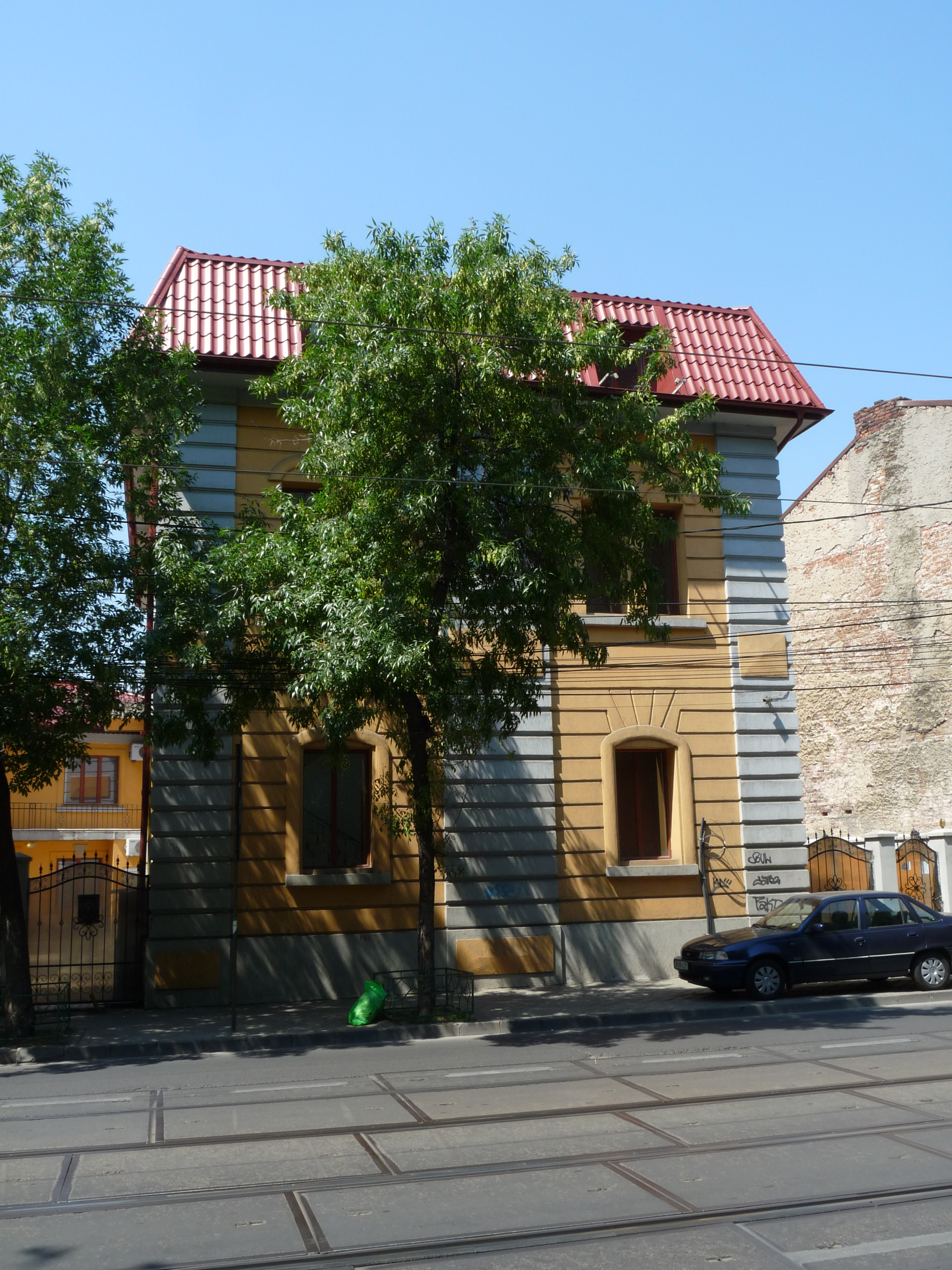 Historic building in Bucharest, Romania, on Regina Maria boulevard 36-38Română: Clădire istorică din Bucureşti, România, pe bulevardul Regina Maria 32